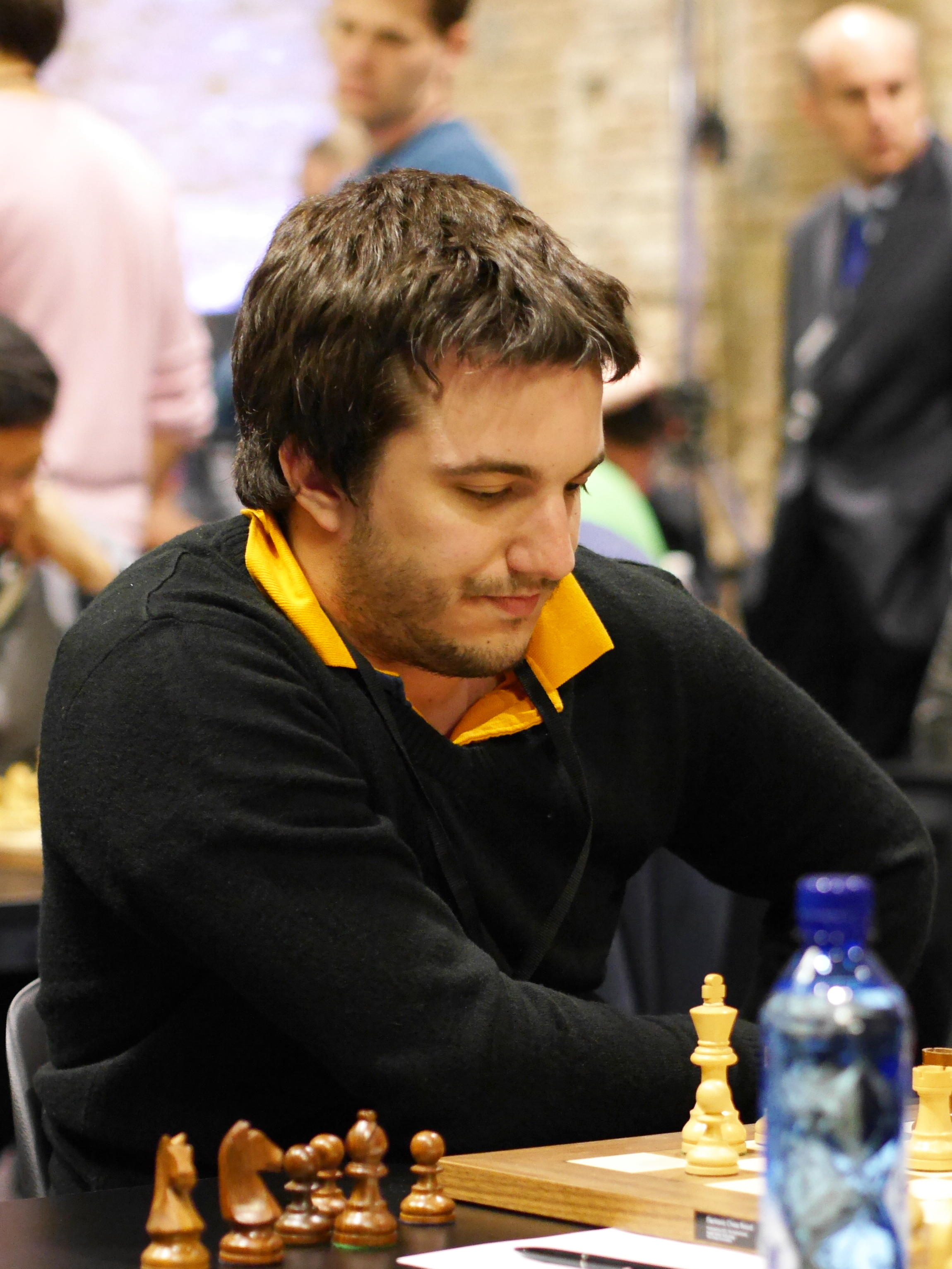 Axel Bachmann at the FIDE World Rapid Chess Championship 2015 in Berlin